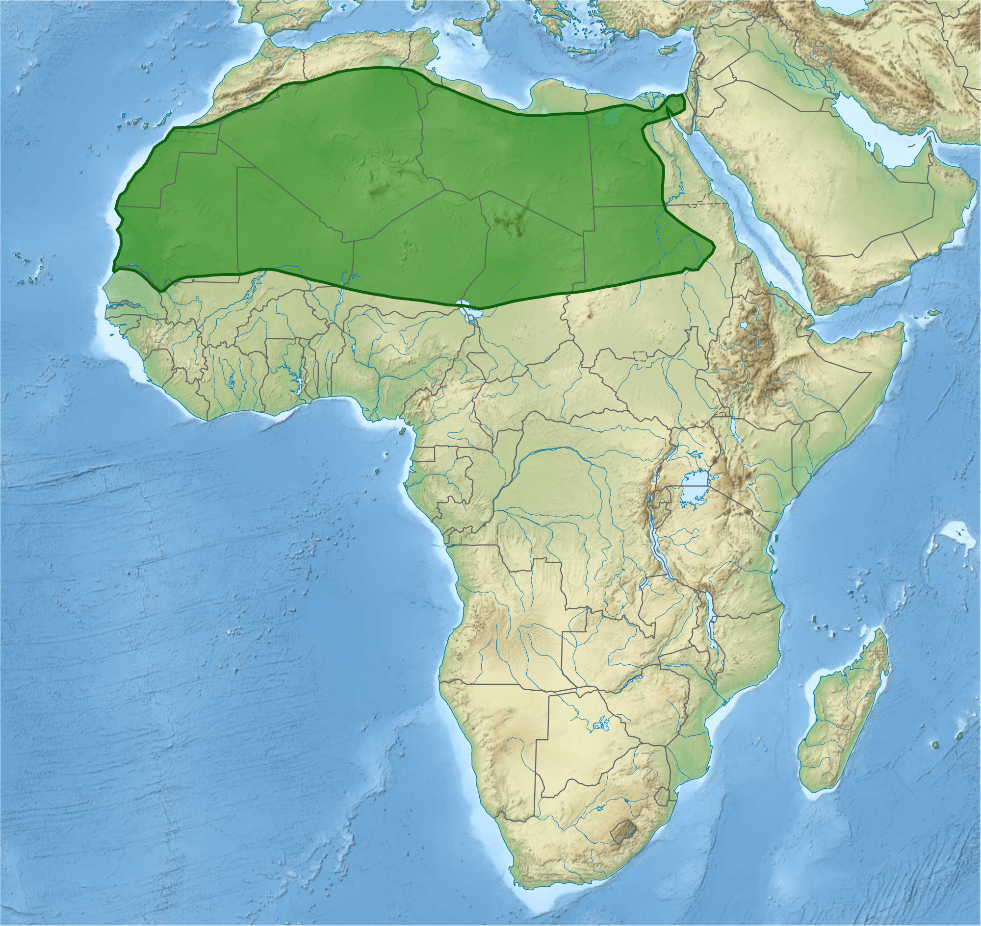 Distribution of the Fennec (Vulpes zerda), based on: Claudio Sillero-Zubiri, Michael Hoffmann, David Whyte Macdonald: Canids: Foxes, Wolves, Jackals and Dogs. IUCN, 2004. ISBN 2831707862, p. 207.